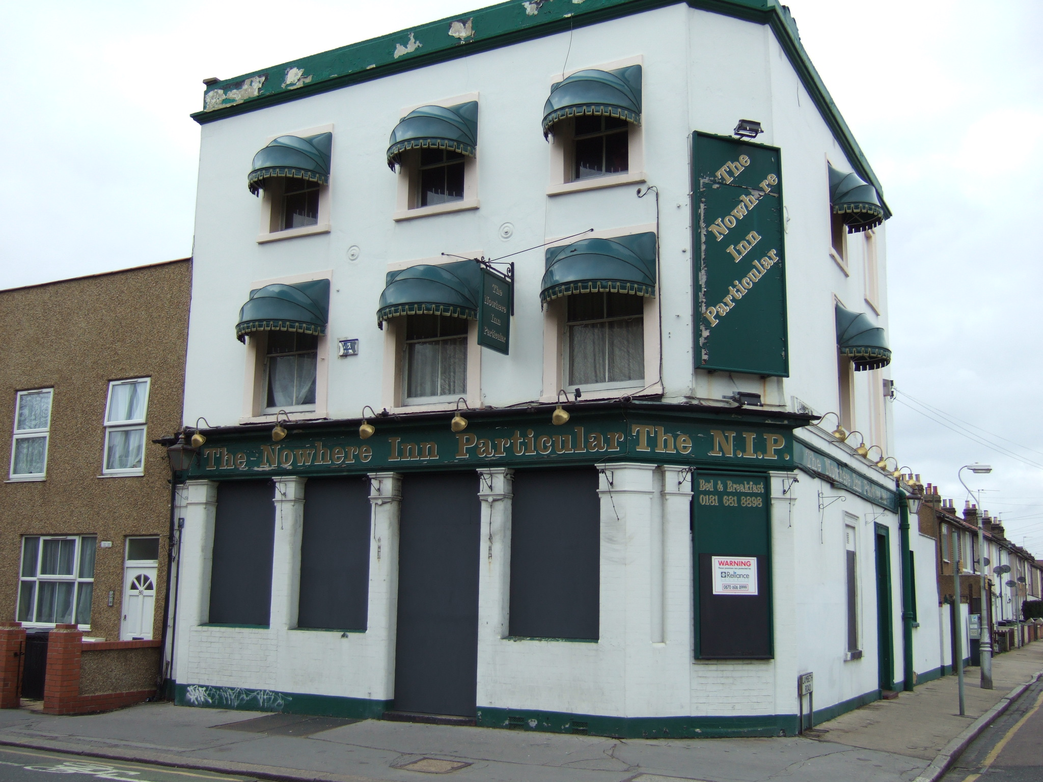 Farewell to Nowhere Inn Particular Address: 78 Sumner Road